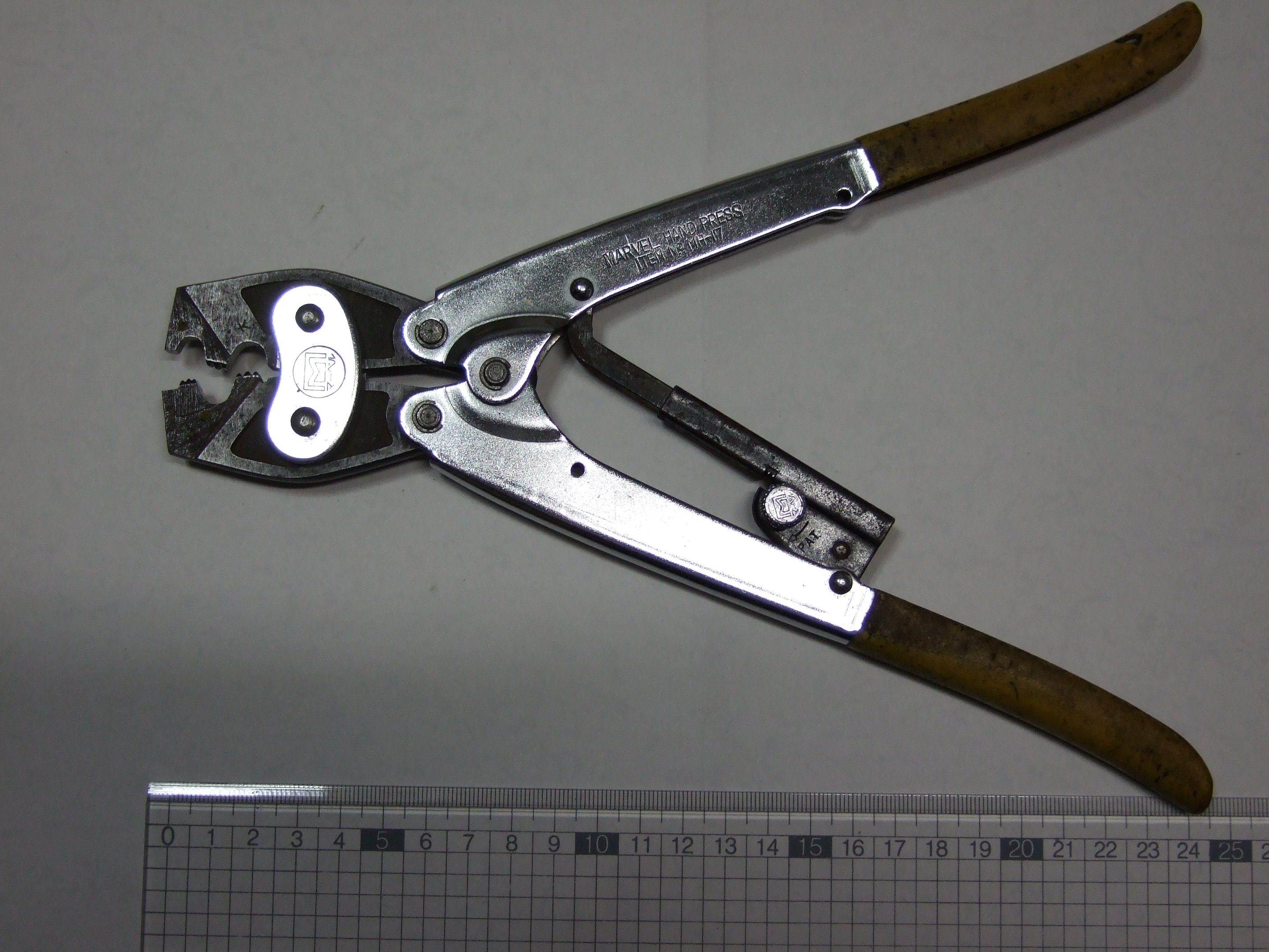 Hand crimp tool (opening) (Marvel Hand Press MH-17. Made by Marvel Corporation. Osaka, Japan)